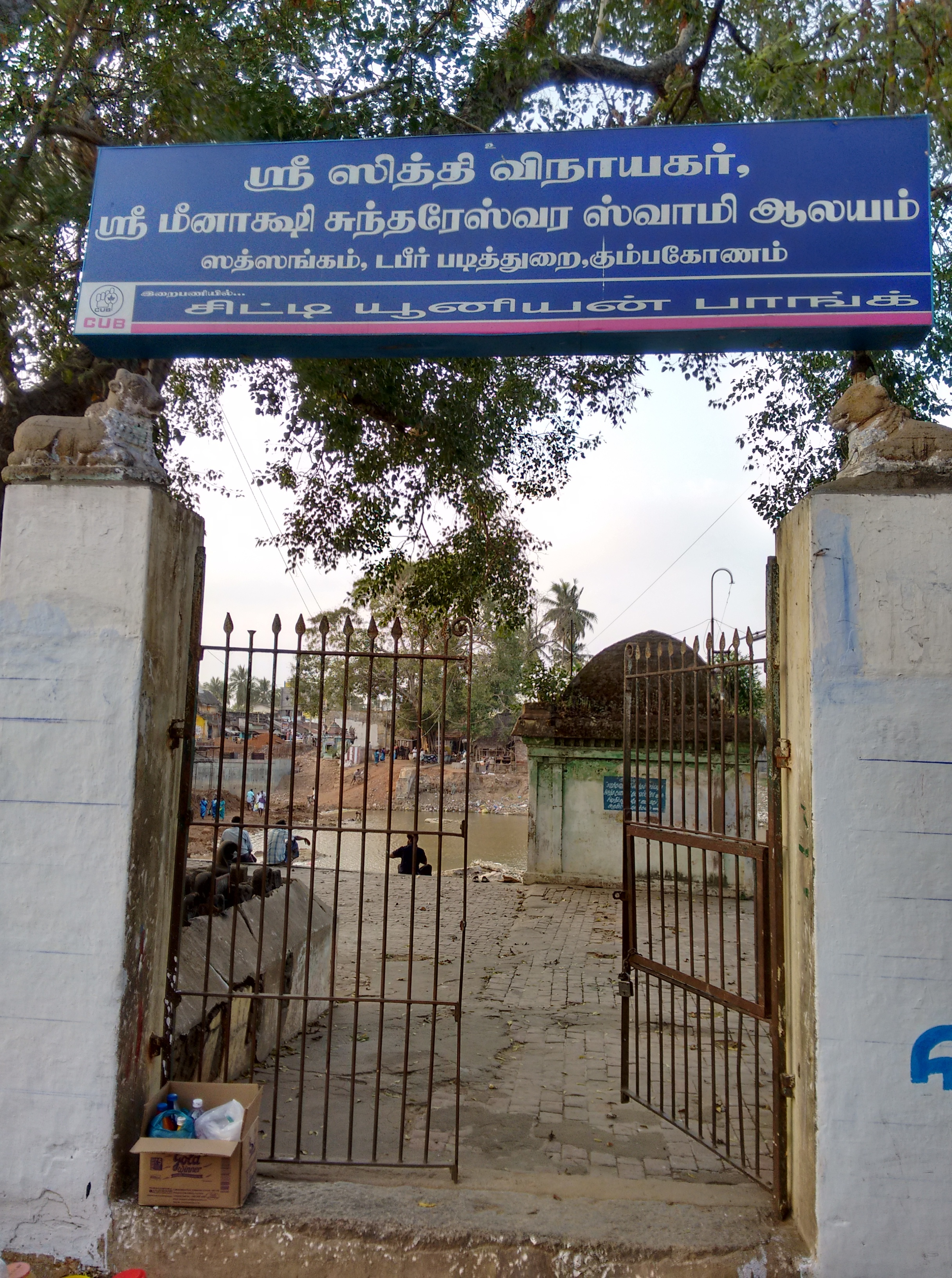 Kumbakonam Meenakshisundaresvarar temple entrance கும்பகோணம் மீனாட்சிசுந்தரேஸ்வரர் கோயில் நுழைவாயில்